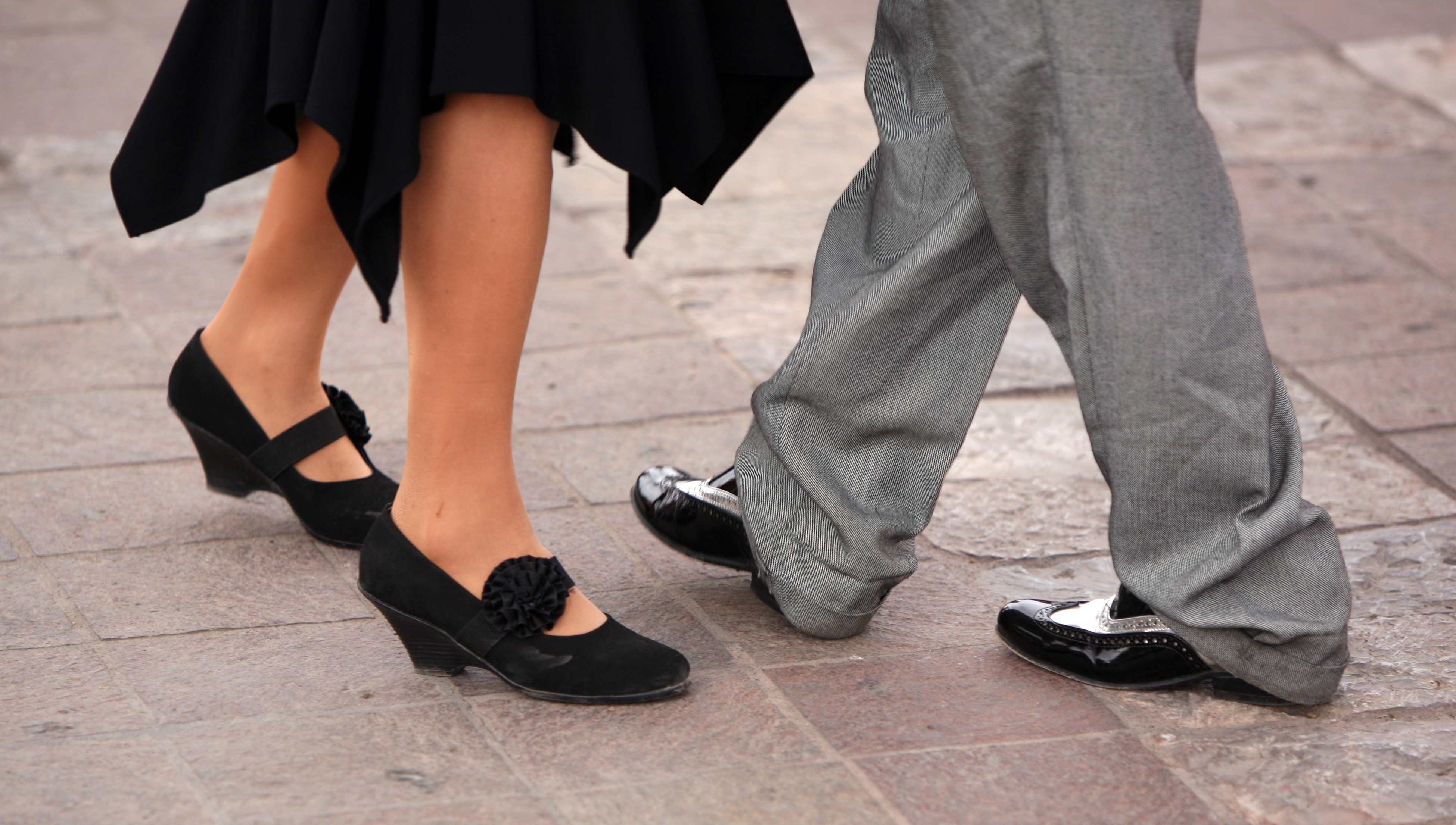 Danzón dancers in León, Guanajuato, mexico